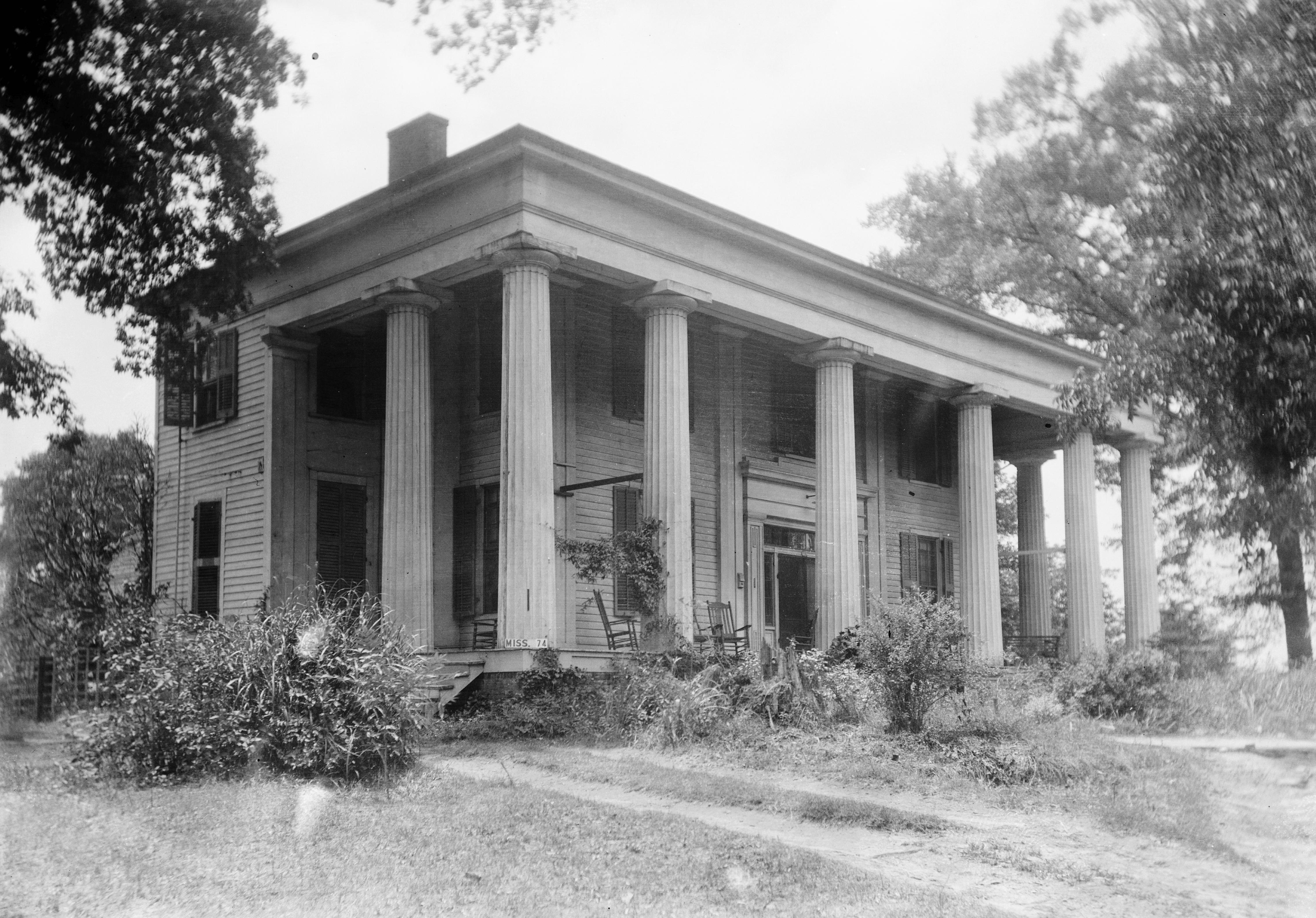 Front of the Reuben Davis House, located at 803 W. Commerce Street in Aberdeen, Mississippi, United States. Built in 1847, it is listed on the National Register of Historic Places.